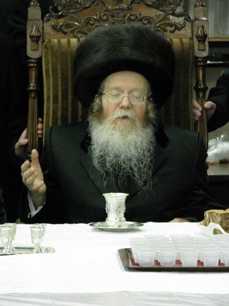 kretshnif